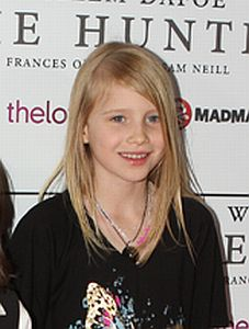 Morgana Davies, young Australian actress